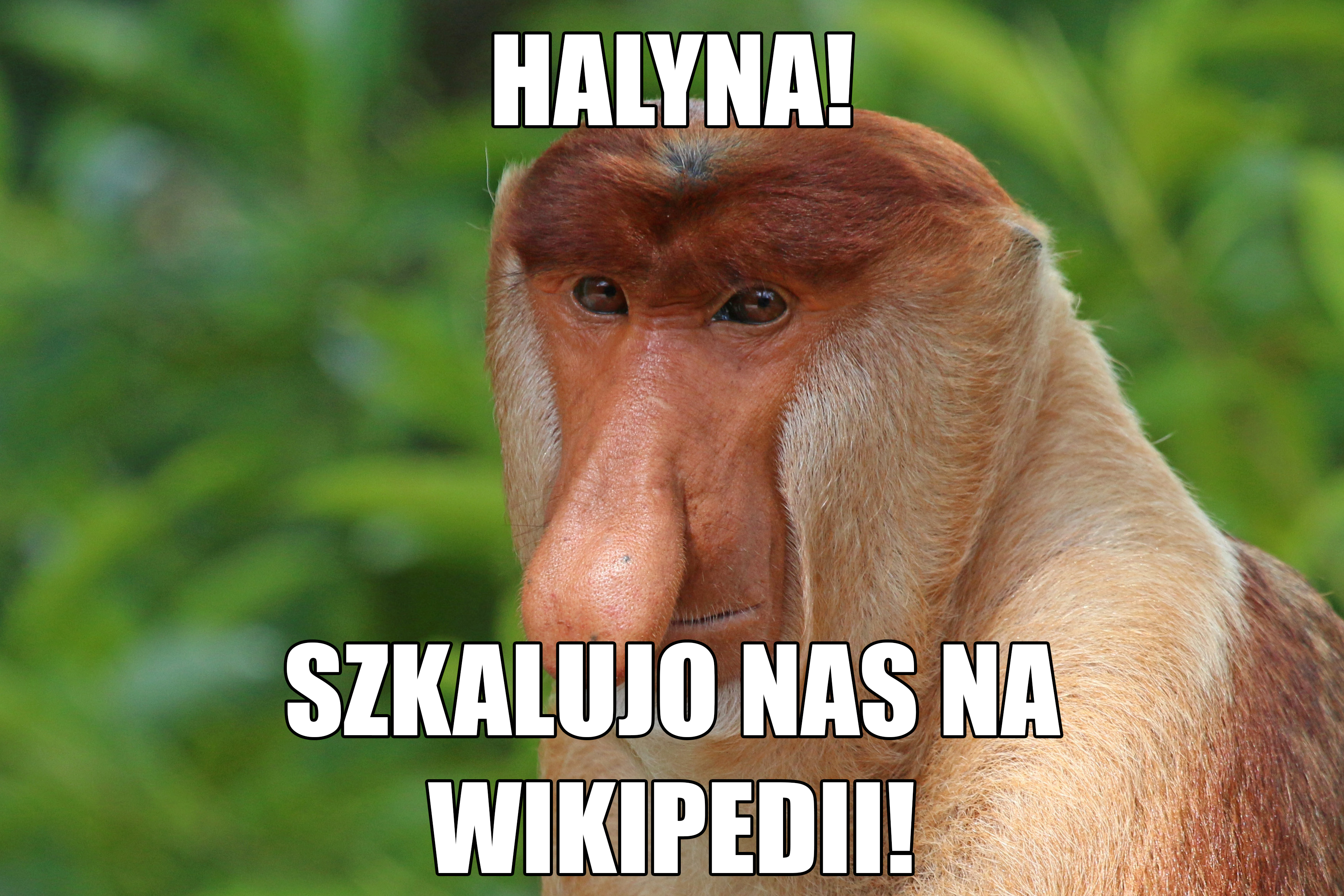 Proboscis monkey is often used in Polish internet memes as an example of a stereotypical Pole, called janusz.